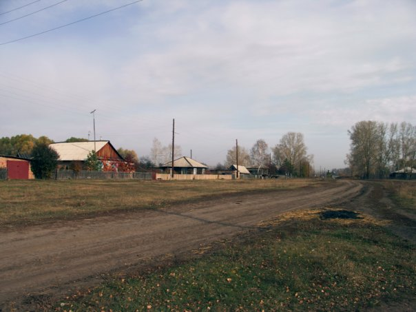 Verkh-Borovlyanka, Sadovaya St.